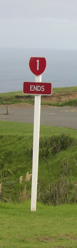 State Highway 1 Sign North Cape Reinga